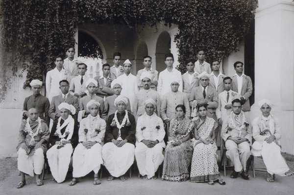 Maharaja's College group photo showing S.Srikanta Sastri with M.H.Krishna, A.R.Krishnashastry, Rallapalli Anantha Krishna Sharma, V. Seetharamaiah, D.L.Narasimhachar